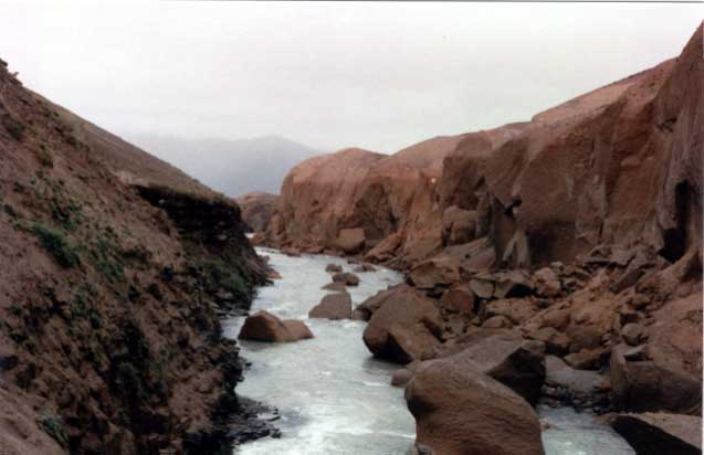 I took this photo of the River Lethe in the Valley of 10,000 smokes while backpacking there in August, 1986.